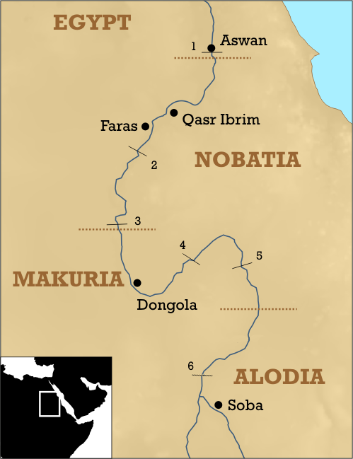 Modified version of Image:Nubia today.png, created by Mark Dingemanse. Released under the Creative Commons Attribution 2.0 License.